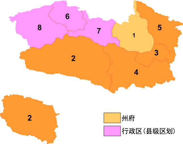 Map of Haixi Mongol and Tibetan Autonomous Prefecture in Qinghai Province, China.